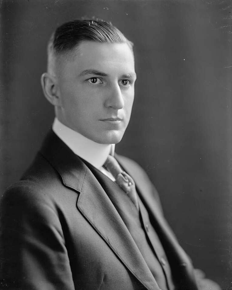 King Swope, head-and-shoulders portrait, facing right